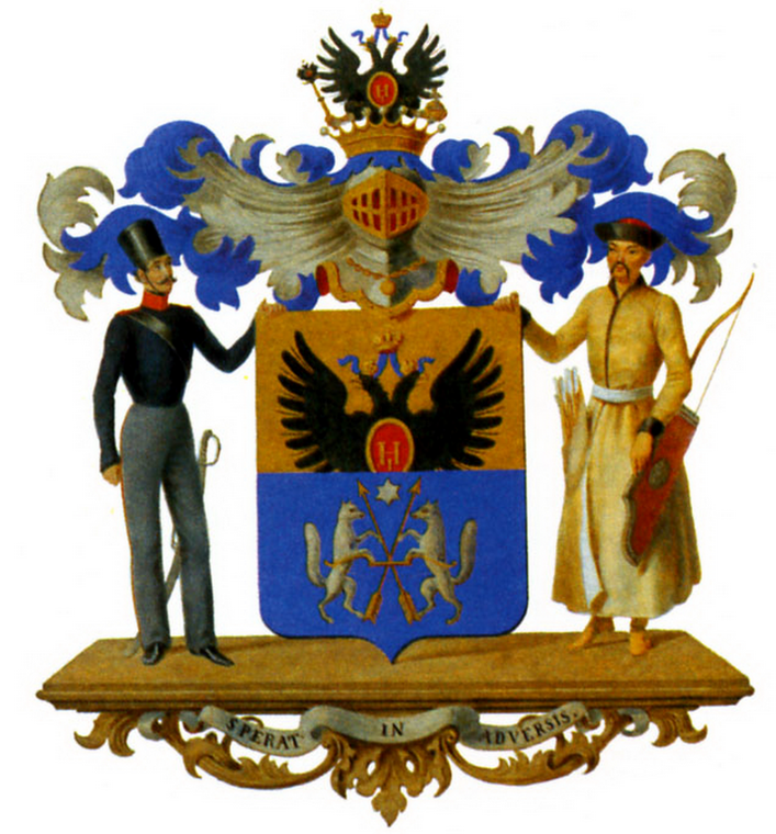 Coat of Arms of family Speransky